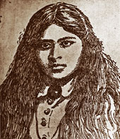 Toru Dutt (1856-1877), the Indian poetess who travelled to Europe.